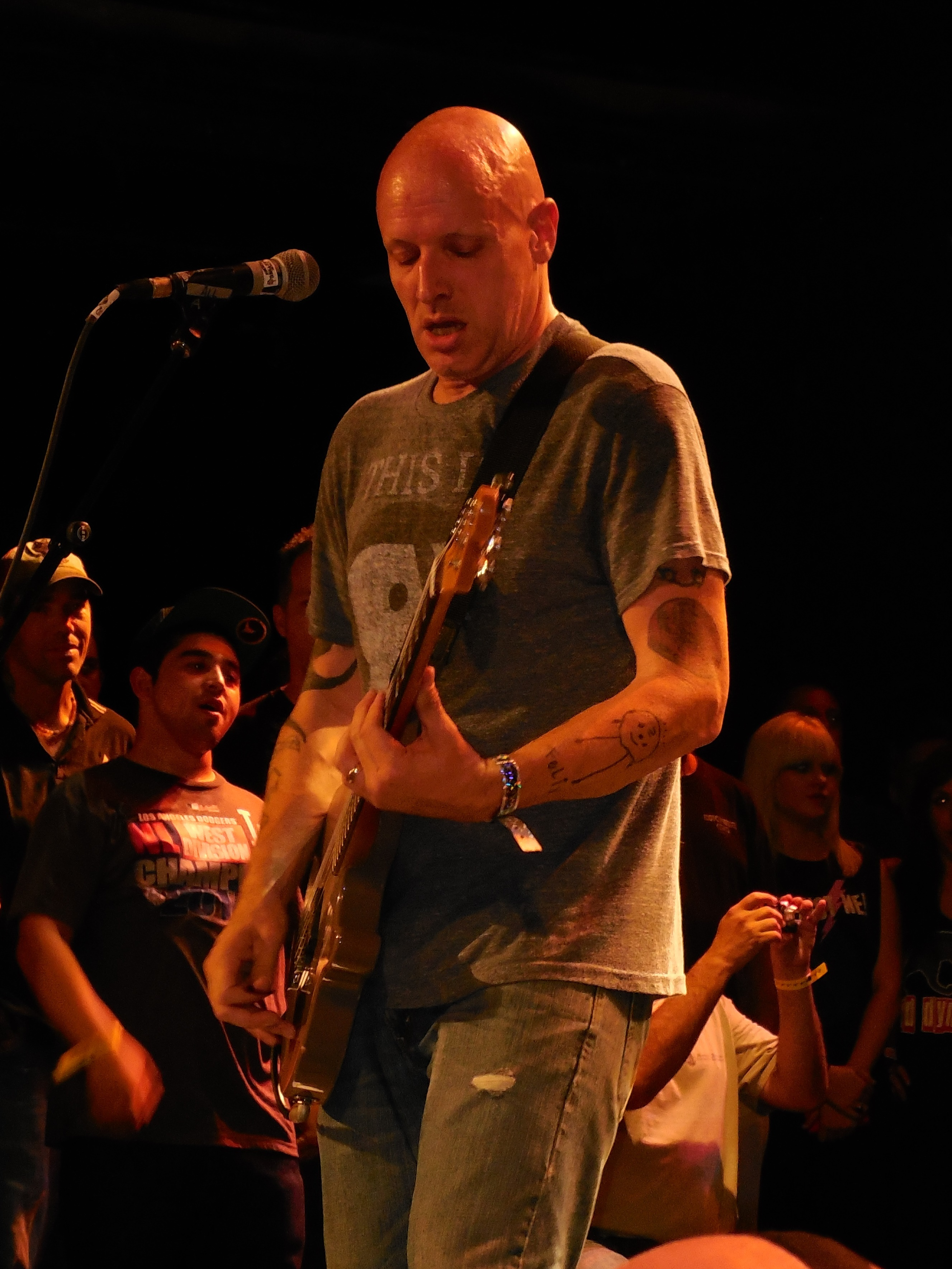 Guitarist Stephen Egerton of the Descendents performing at the Fox Theater in Pomona, California on September 28, 2014.